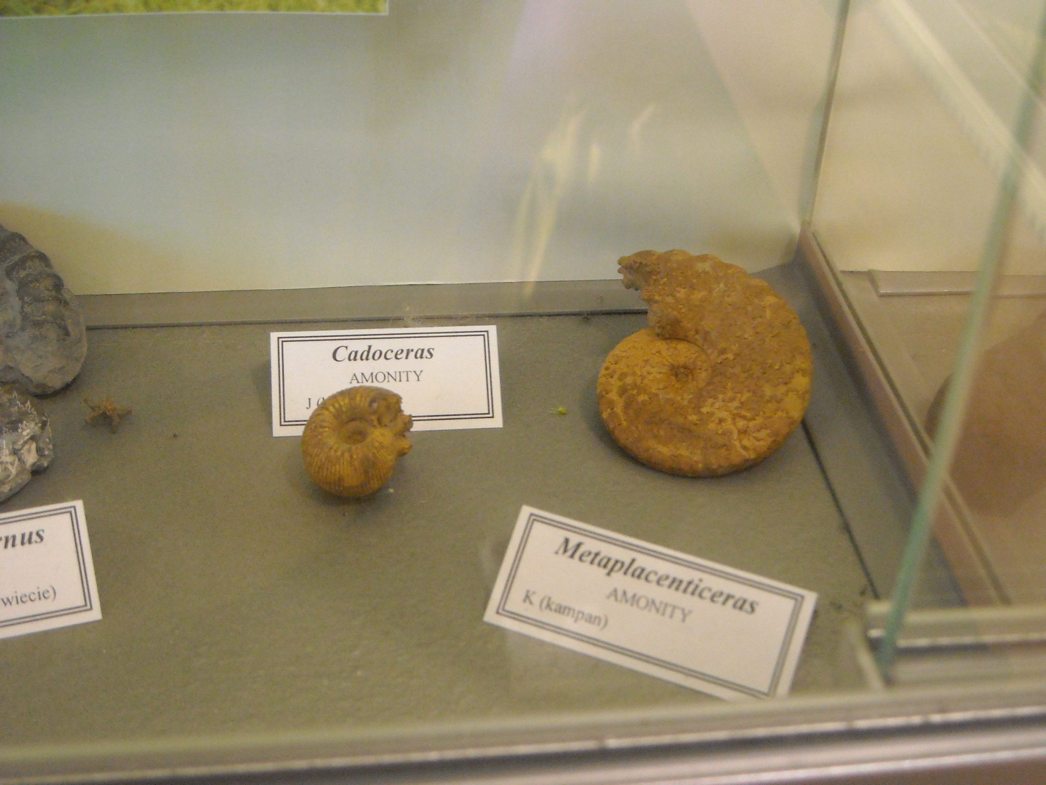 Cadoceras - Institute of Geology, Faculty of Geographical and Geological Sciences, Adam Mickiewicz University in Poznań (Poland)